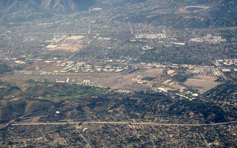 Los Angeles County, at over 8 million people, is the most populous county in the entire United States. It would be a very significant player, even as a stand-alone state or even an independent country. And the fairgrounds in Pomona, at the eastern edge of the county, is where the nation's largest county has its annual fair every September. Just a few miles to the east of Pomona, for the record, is San Bernardino County, which also can claim the title of the largest county in the United States - by area (within Lower 48 only), stretching almost all the way to Las Vegas. Just to the left of the fairgrounds is Brackett Field in La Verne, a key general aviation airport. The I-10 is in the foreground, and the CA-210 freeway is also visible toward the back. I'm only about 45 miles from LAX, and at about 10,000 feet altitude, by this point. Enroute from Newark to Los Angeles. N17139, Boeing 757-200 (ex-Continental)